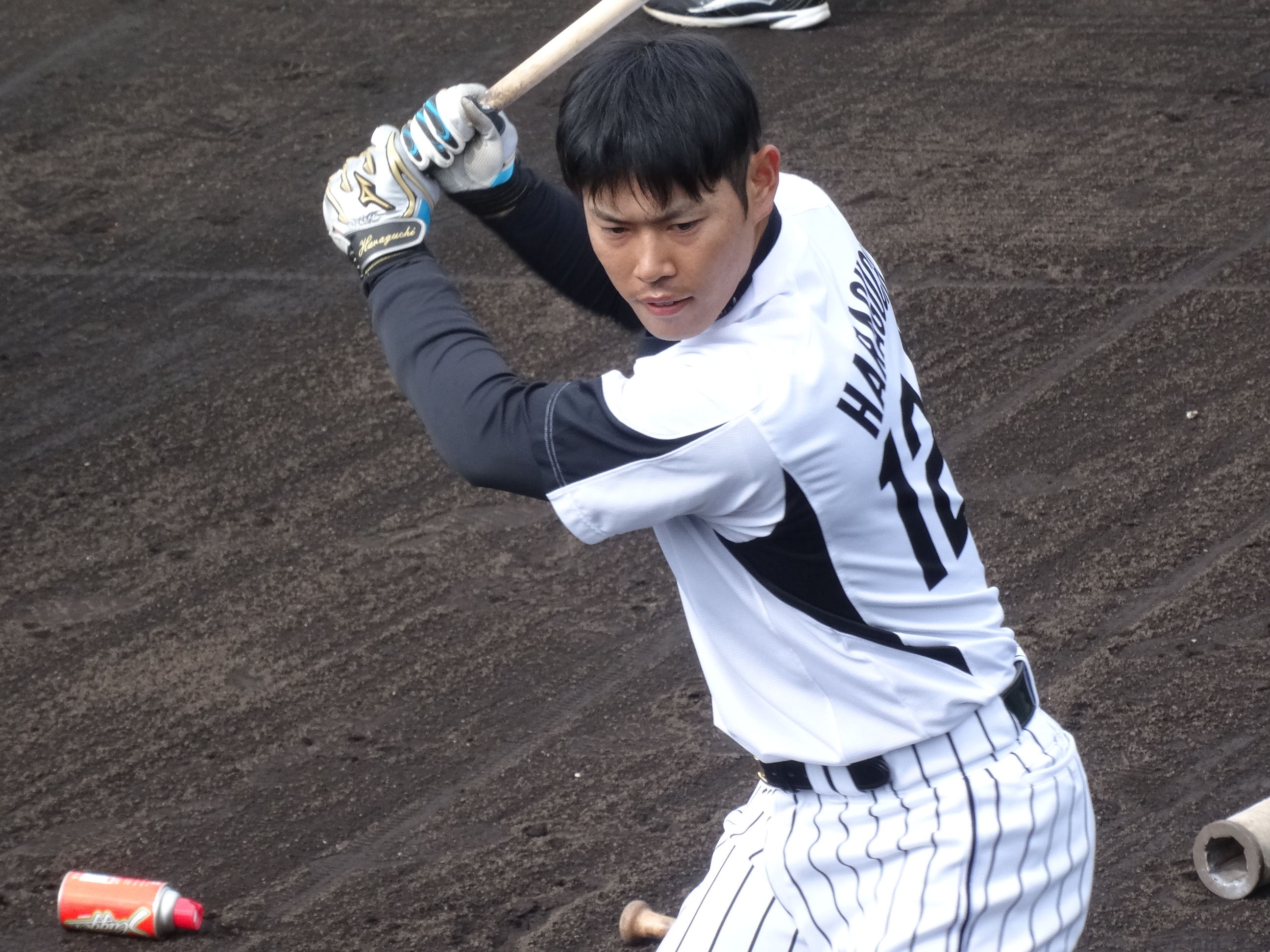 Fumihito Haraguchi, catcher of the Hanshin Tigers, at Hanshin Naruohama Baseball Ground